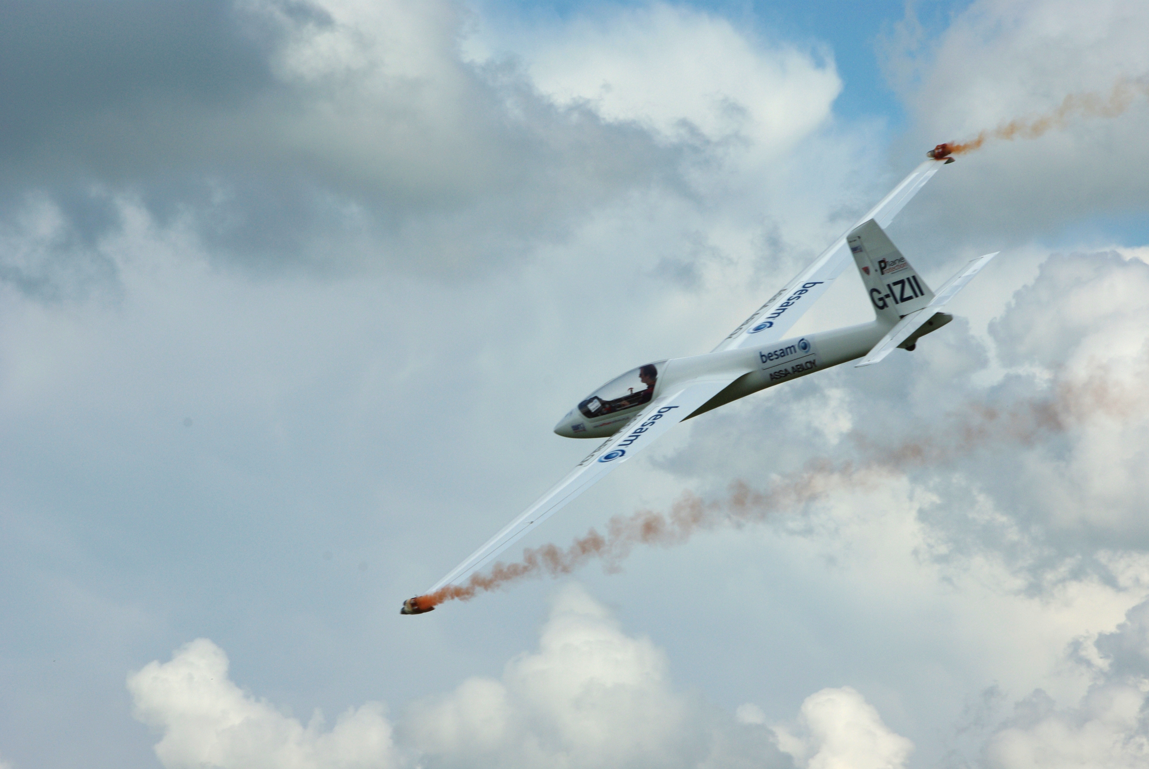 Marganski Swift S-1 performs aerobatics at Old Warden's Summer Show 2009